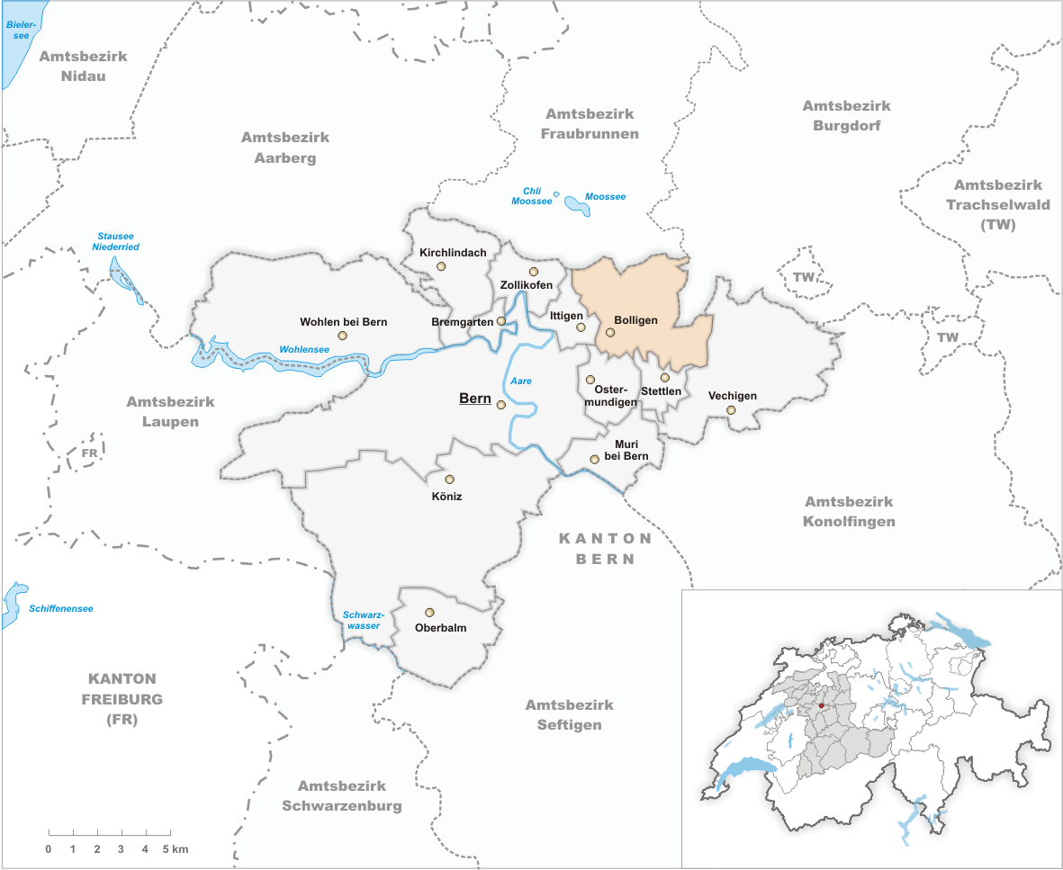 Municipality Bolligen